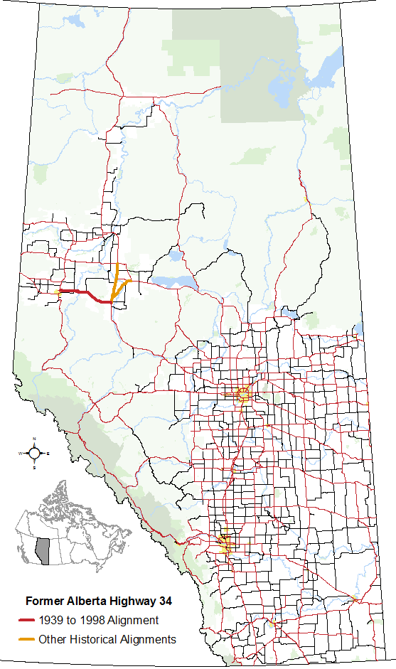 The various alignments of former Highway 34 within Alberta in relation to the balance of the provincial highway system within other base features including hydrography, national/provincial parks and the provincial green and white zones.